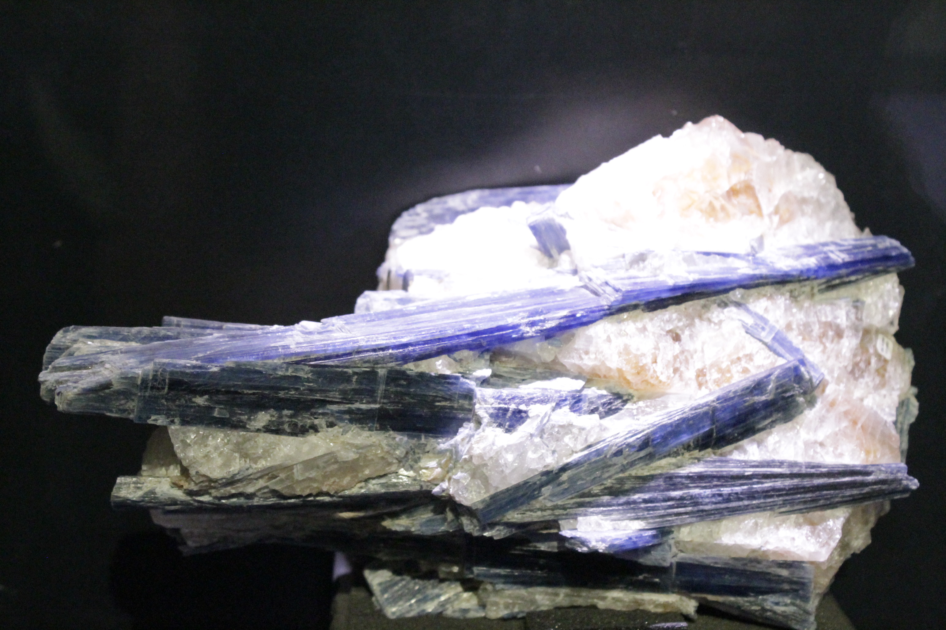 Kyanite within quartz, as collected by Dr John Hunter, Hunterian Museum, Glasgow